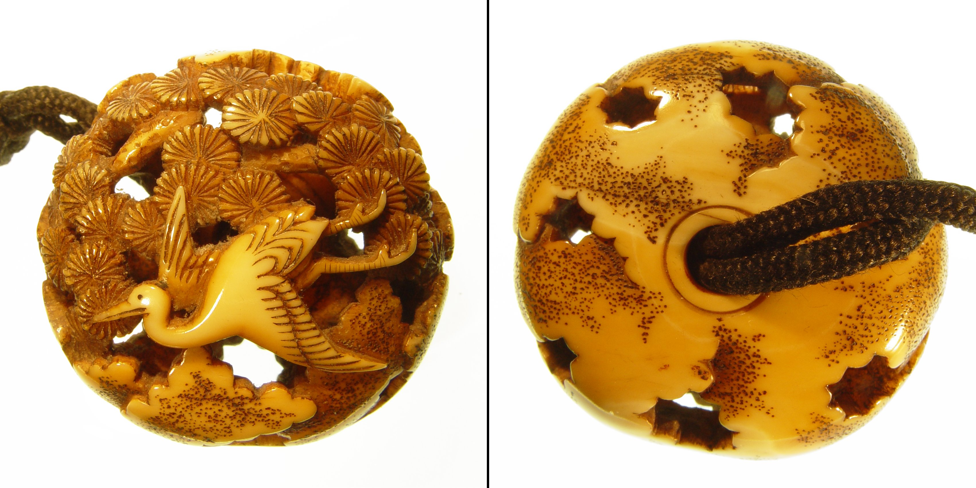 This 19th century ryusa netsuke depicts a crane flying over pine branches, with clouds on the reverse. The netsuke is ivory; 1.6" (41mm) in diameter, 0.8" (20mm) thick.